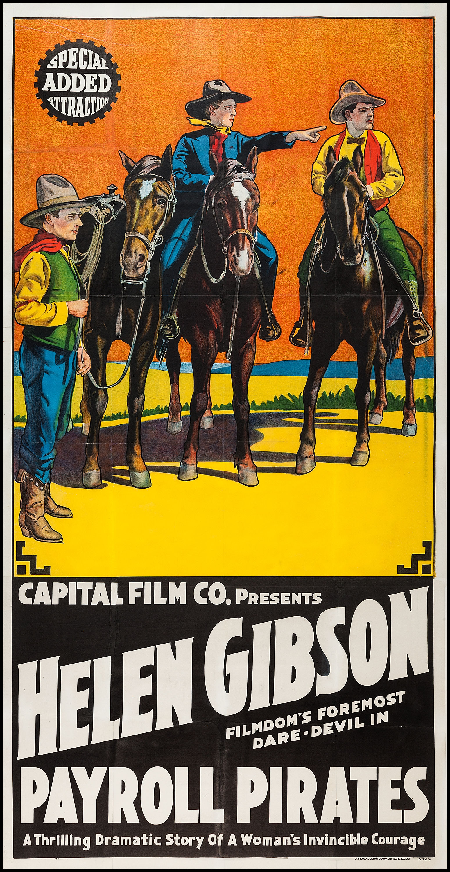 Poster for the American western film The Payroll Pirates (1920).